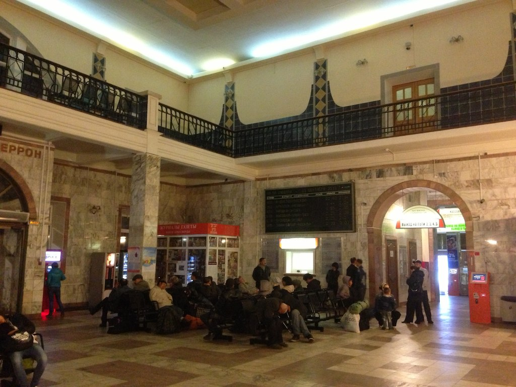 Ulan-Ude Railway Station